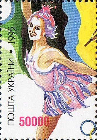 Oksana Baiul, Olympic champion in figure skating.